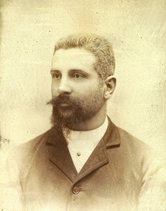 The portrait of Italian composer Giuseppe Gallignani (1851—1923)